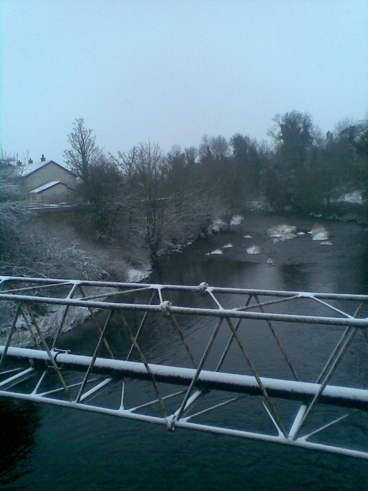 A picture taken of the river which runs through Maguiresbridge on a snowy morning